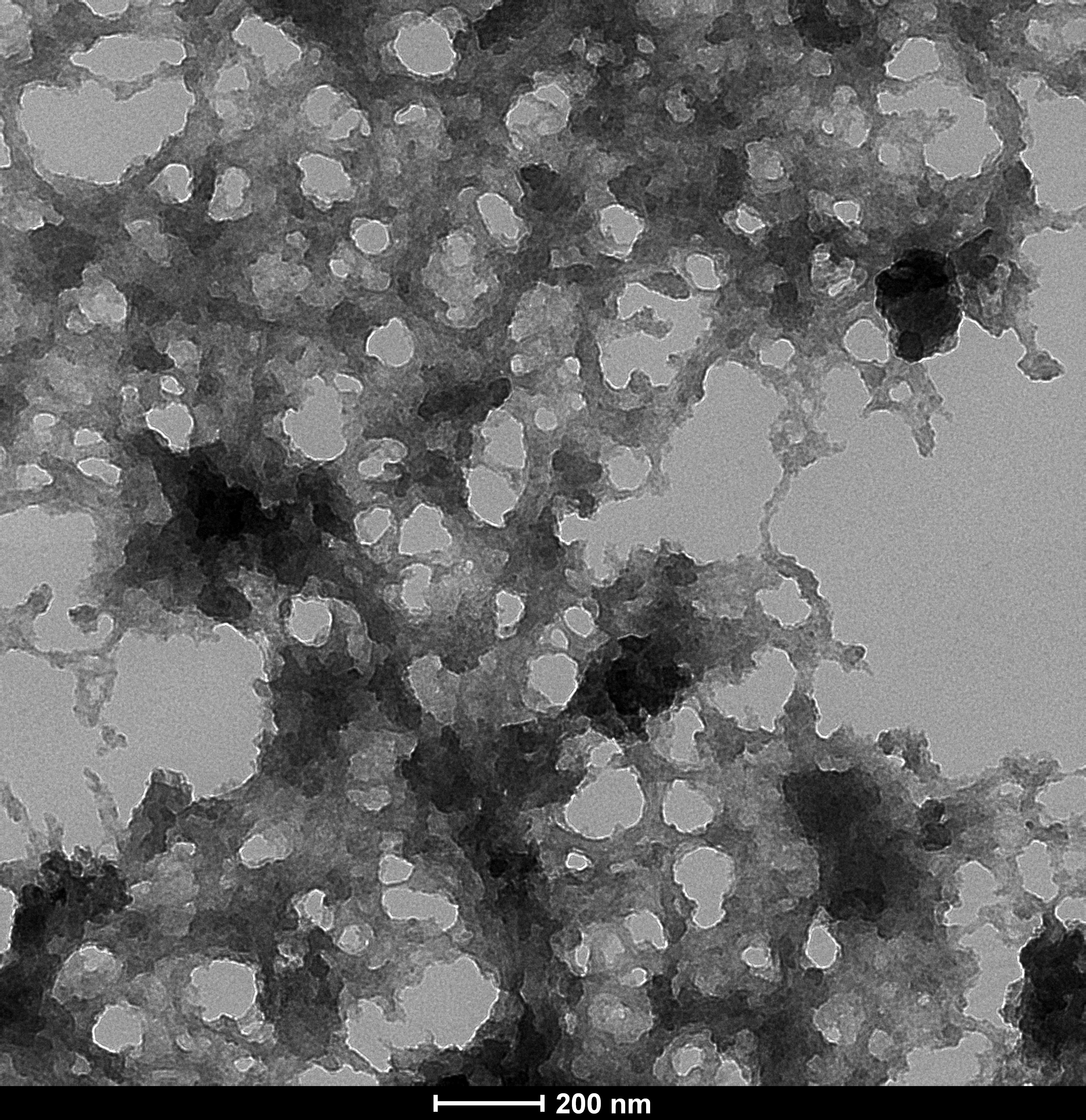 TEM image of an amorphous porous silicon particle